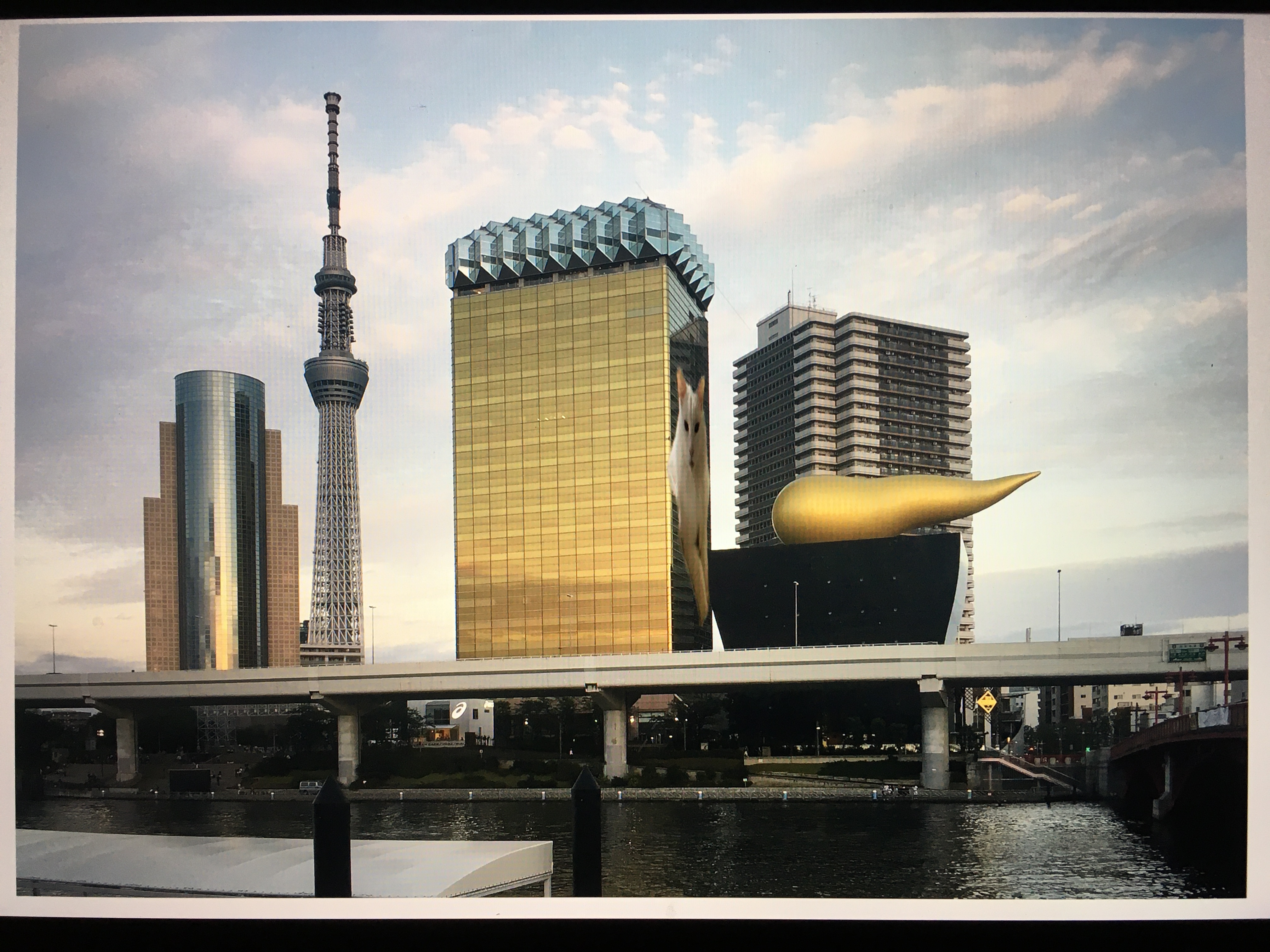 from AzumaBrid./my self capture.